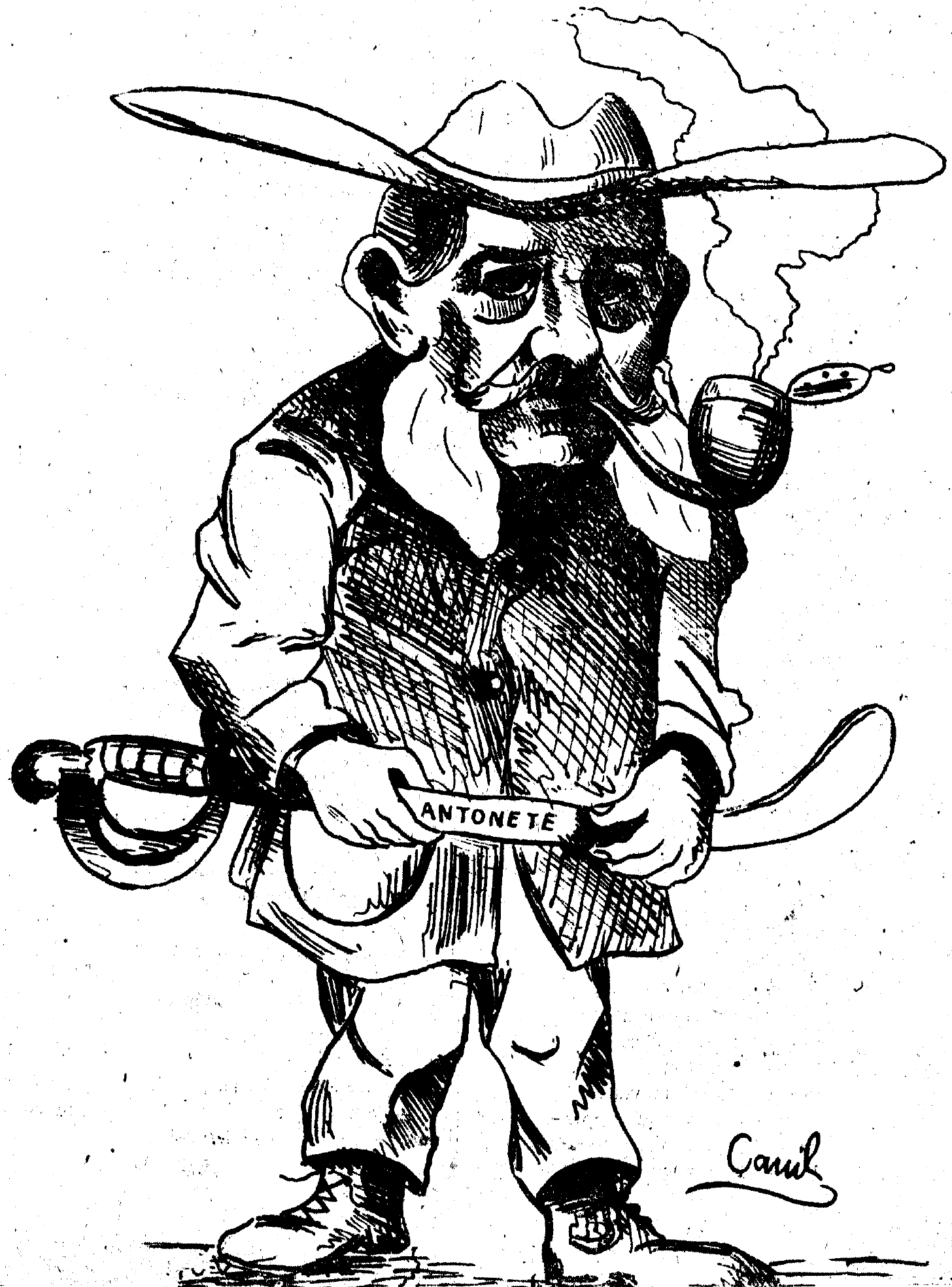 Caricature of the professor, writer and researcher Andrés Baquero, director of the Provincial Institute of Second Teaching of Murcia. In his hands he holds a sabre with the name "Antonete", due to a controversy of the time about the authenticity of the weapon that was then exposed in the Provincial Museum as belonging to the revolutionary Antonio Gálvez Arce.